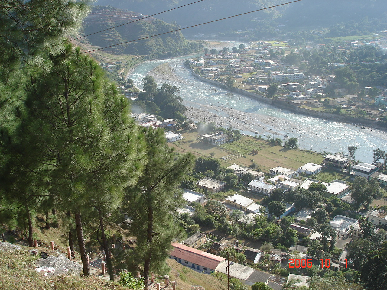 Bird's eyeview of Bageshwar